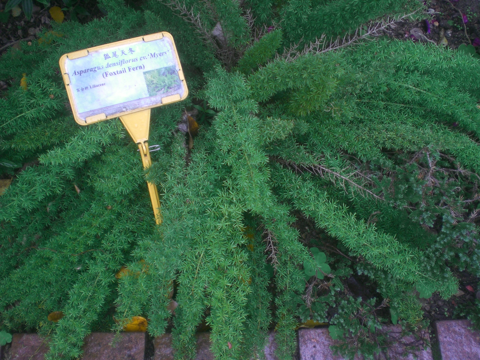 Asparagus densiflorus (Kunth) Jessop cv.Myerszh:中環香港動植物公園 Hong Kong Zoological and Botanical Gardens